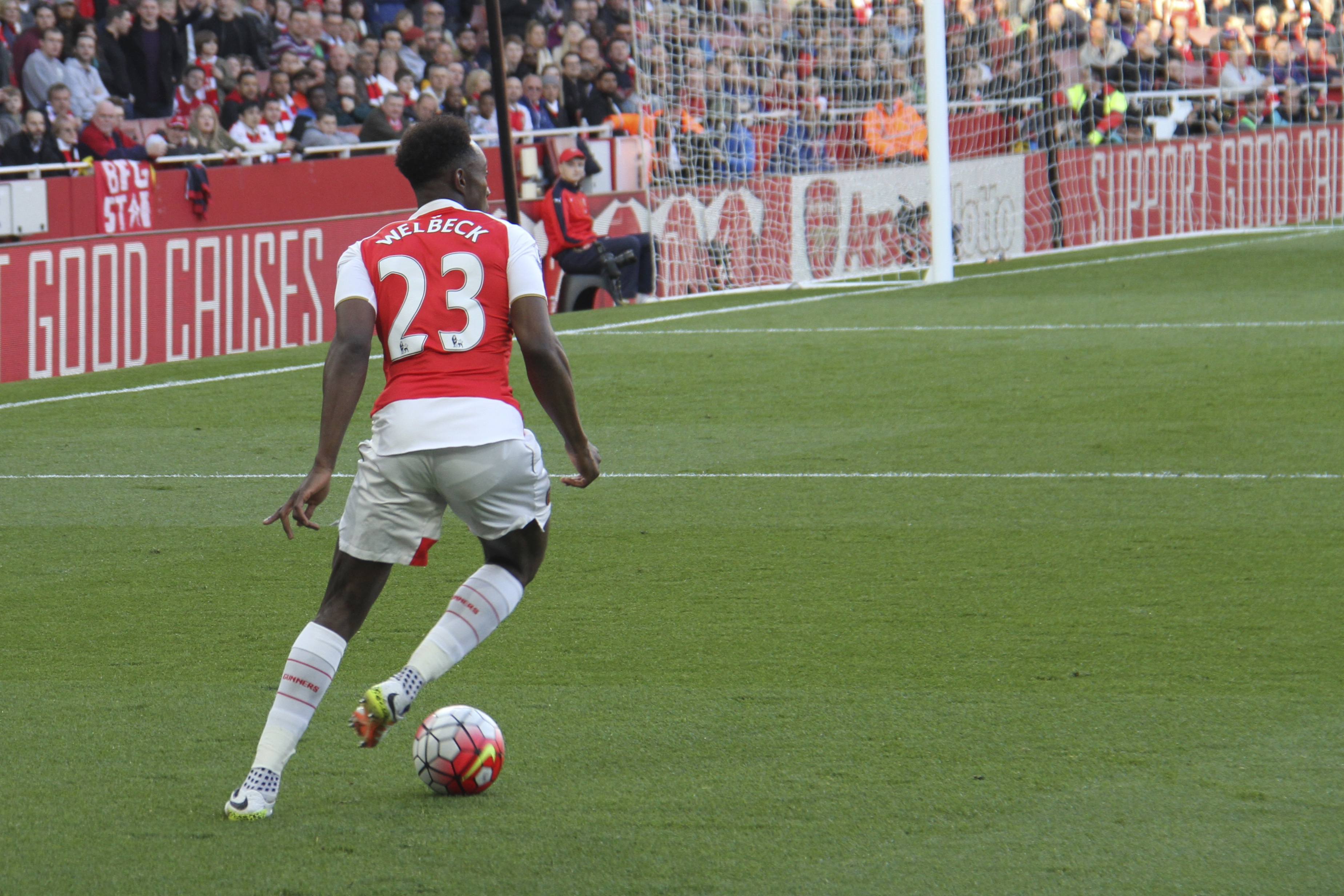 Danny Welbeck in action for Arsenal against Norwich, April 2016